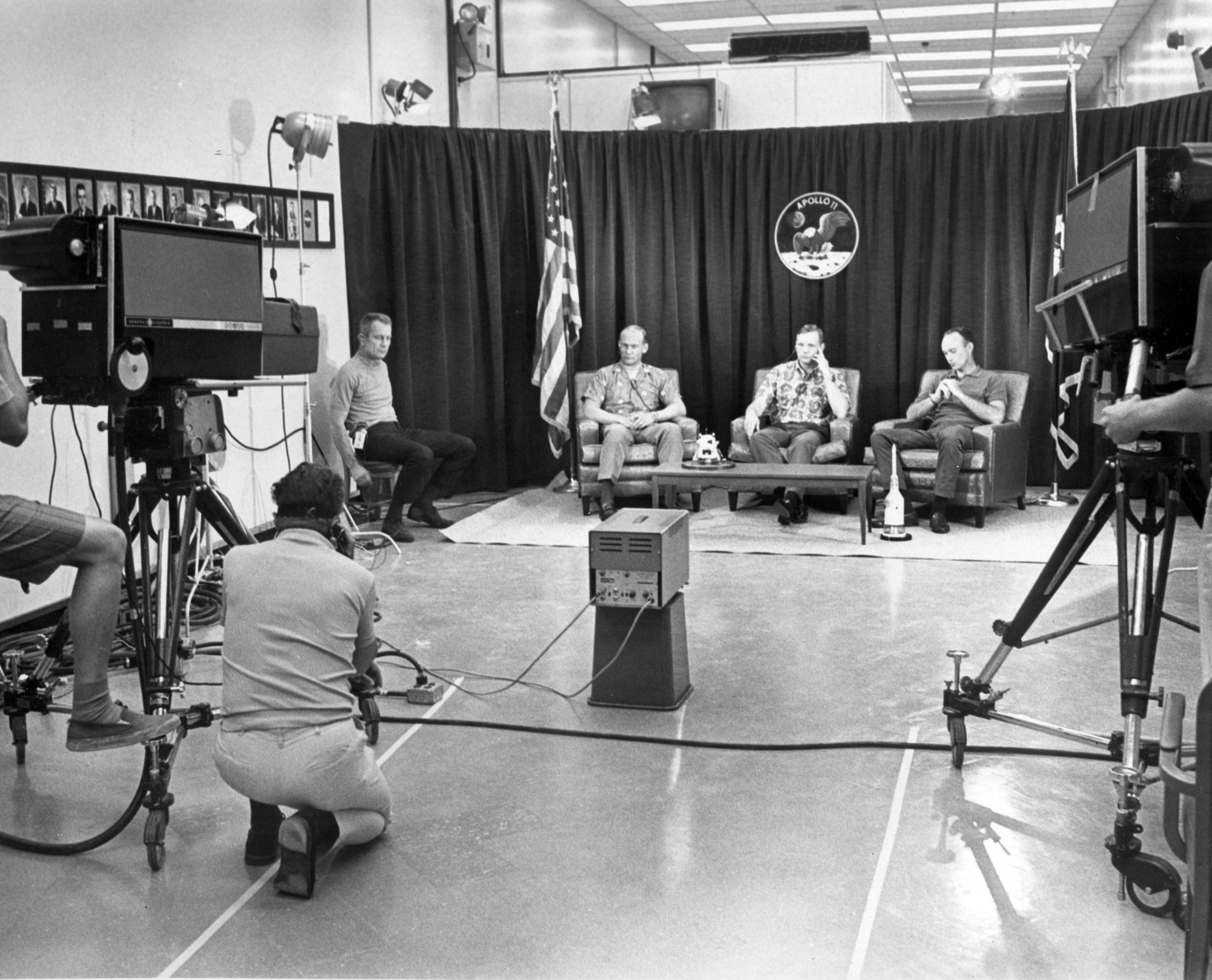 Deke Slayton (on stool at left), Buzz Aldrin, Neil Armstrong, and Michael Collins during the last pre-flight press conference. Photo filed 13 July 1969